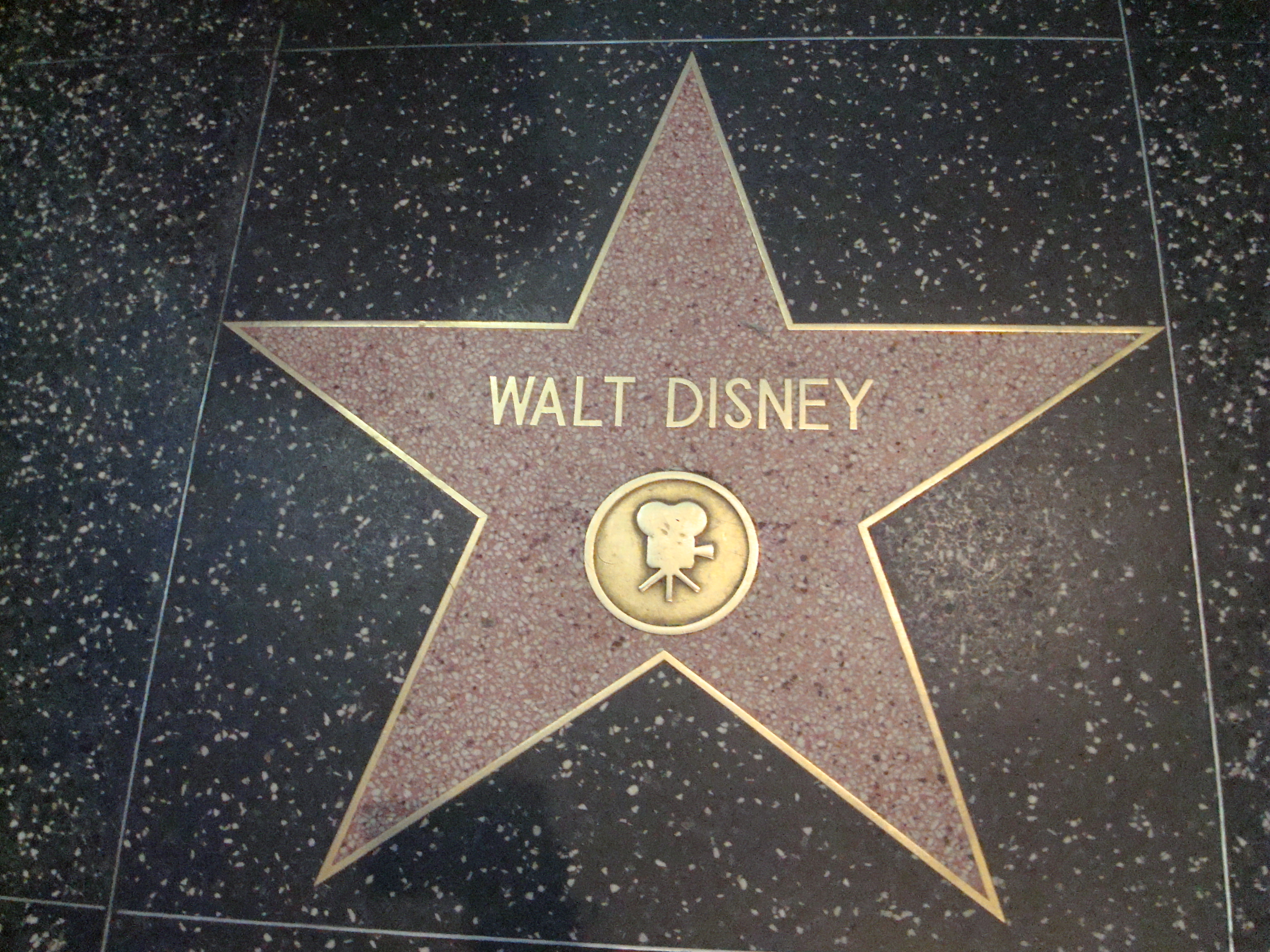 This photo depicts Walter Elias Disney's star on the Hollywood Walk of Fame.